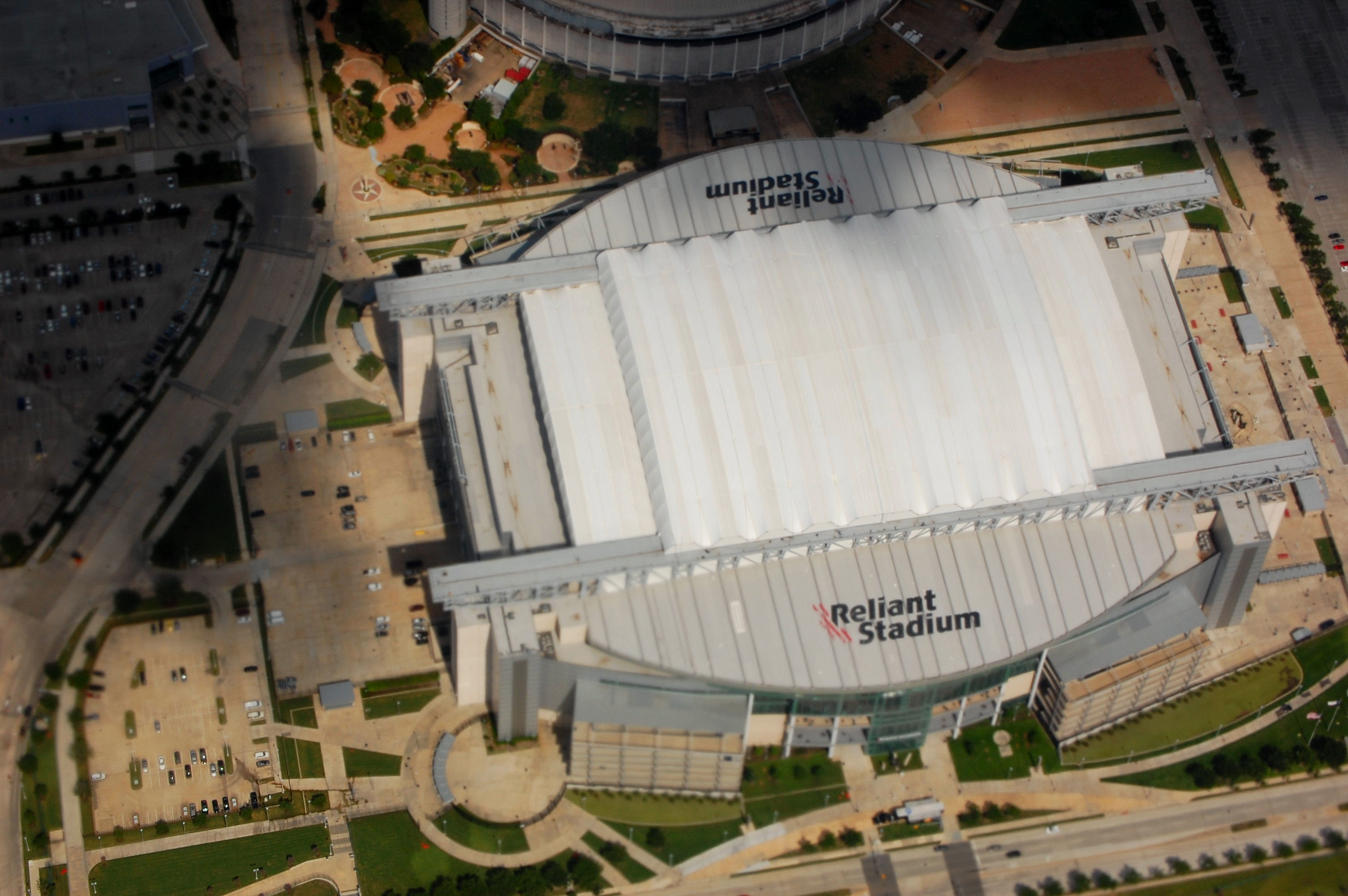 Aerial view of Reliant Stadium as seen on approach to Houston's William P. Hobby Airport